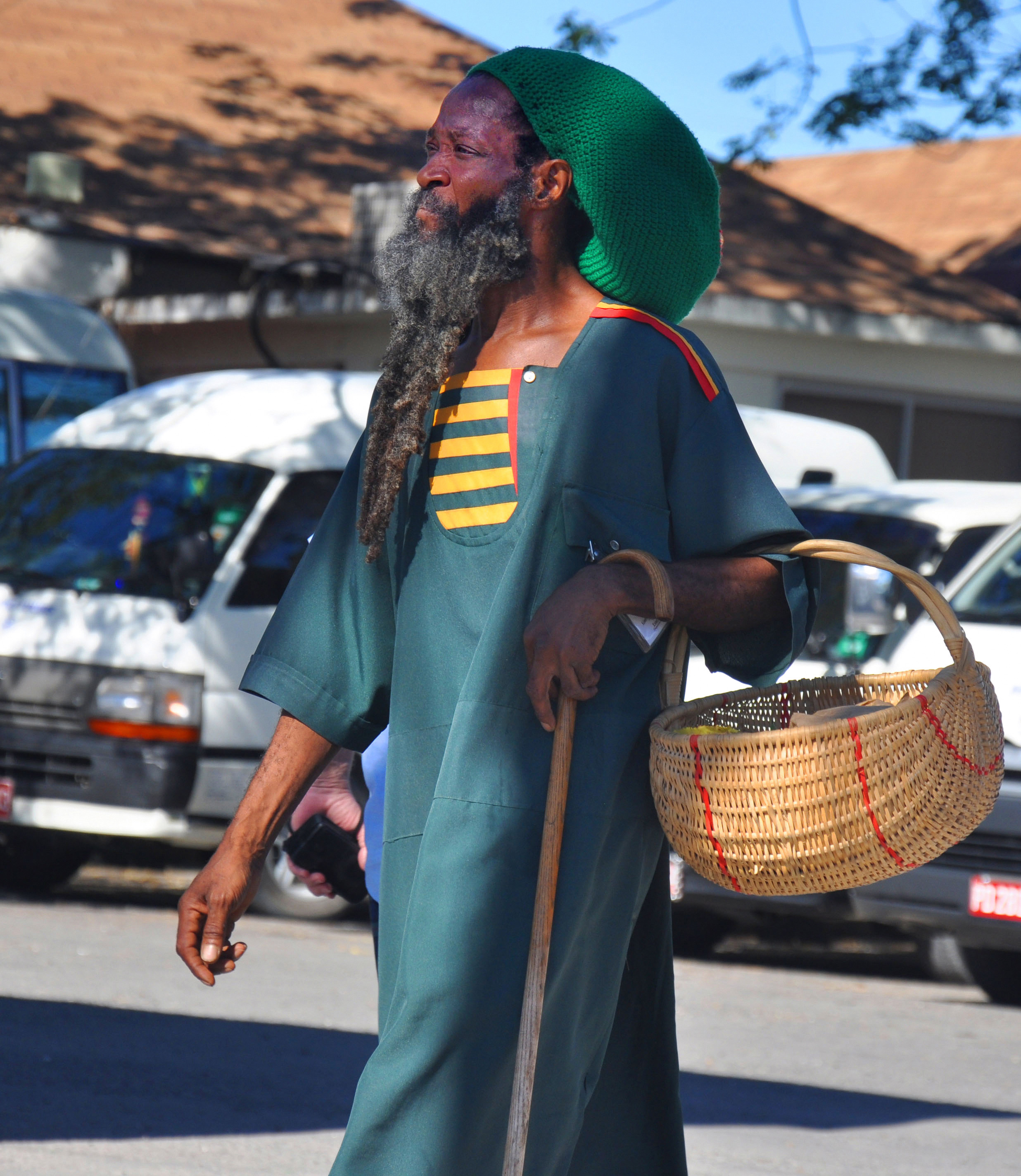 Rastafarian man carrying a basket